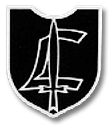 Symbol of the 37. SS-Freiwilligen-Kavallerie-Division